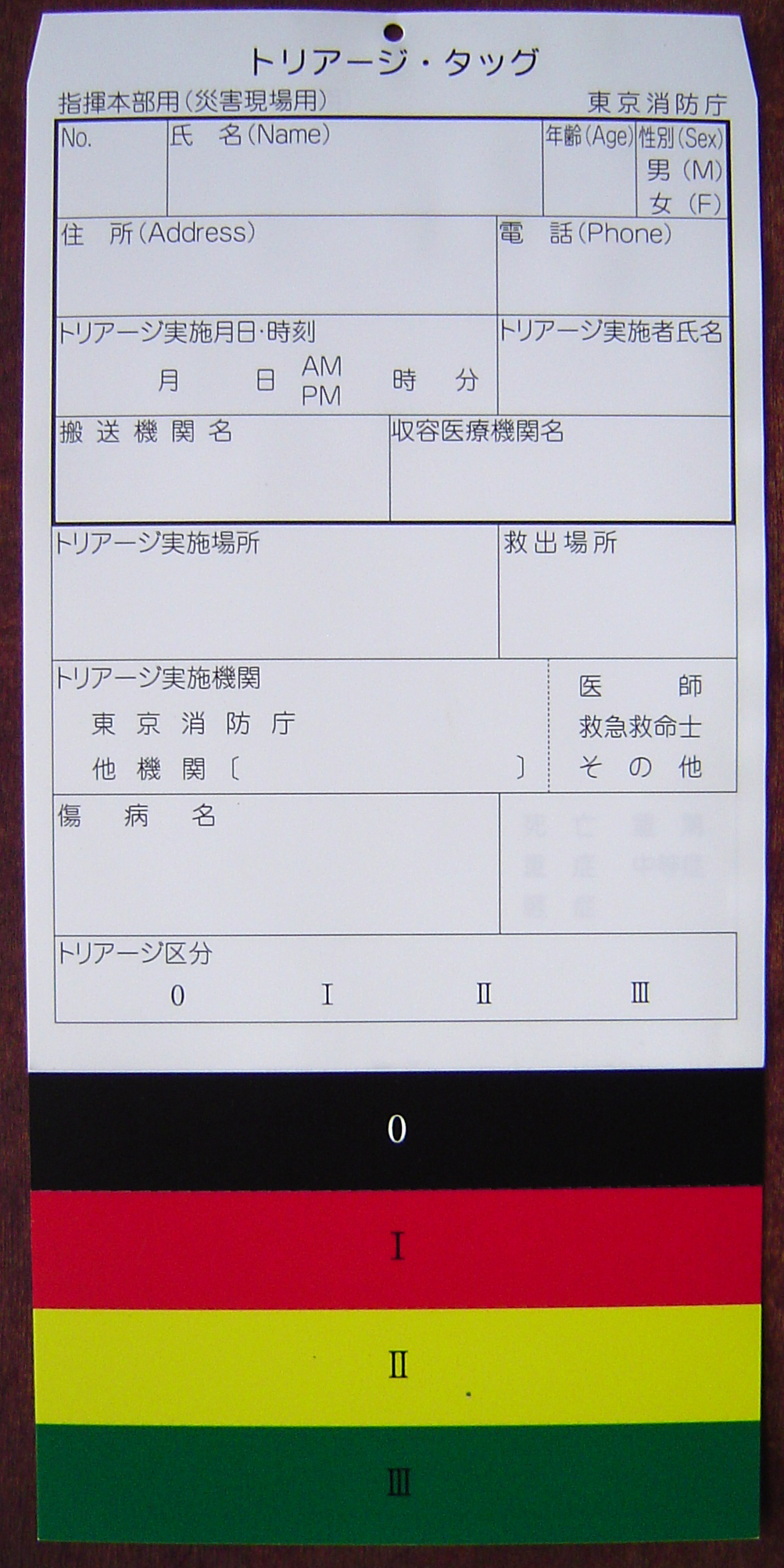 Triage tag (Tokyo Fire Department)